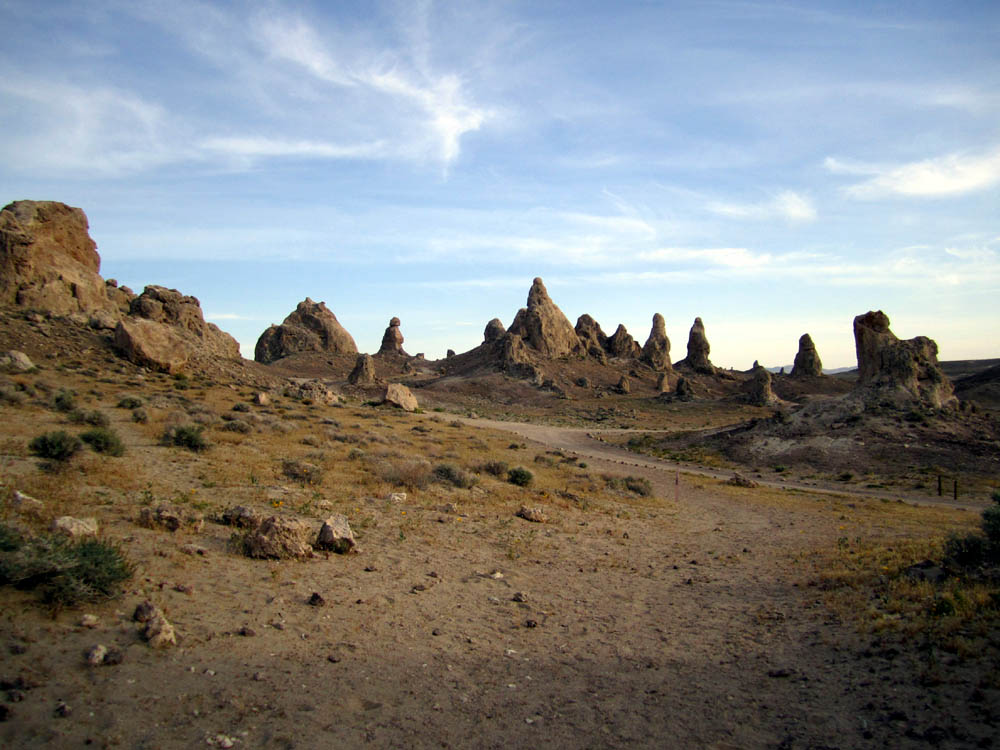 Tufa pinnacles, formed underwater 10,000 to 100,000 years ago, Located ten miles south of Trona, California. April, 2015 by Lisa McElroy